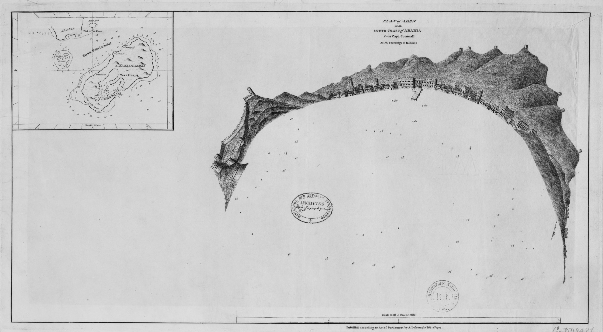 Plan of Aden, with an insert of Perim Island ("I. Babelmandel or Vera Cruz"). By Captain H. Cornwall. Published in 1782. Initially published for Captain Cornwall in 1720 in Observations Upon Several Voyages to India out and Home; Also Remarks on the Ports and Places Touched (...) Interestingly, this plan seems to indicate that, at such an early date, there already was an association made between Aden and Perim Island at the mouth of the Bab-el-Mandeb Straits.